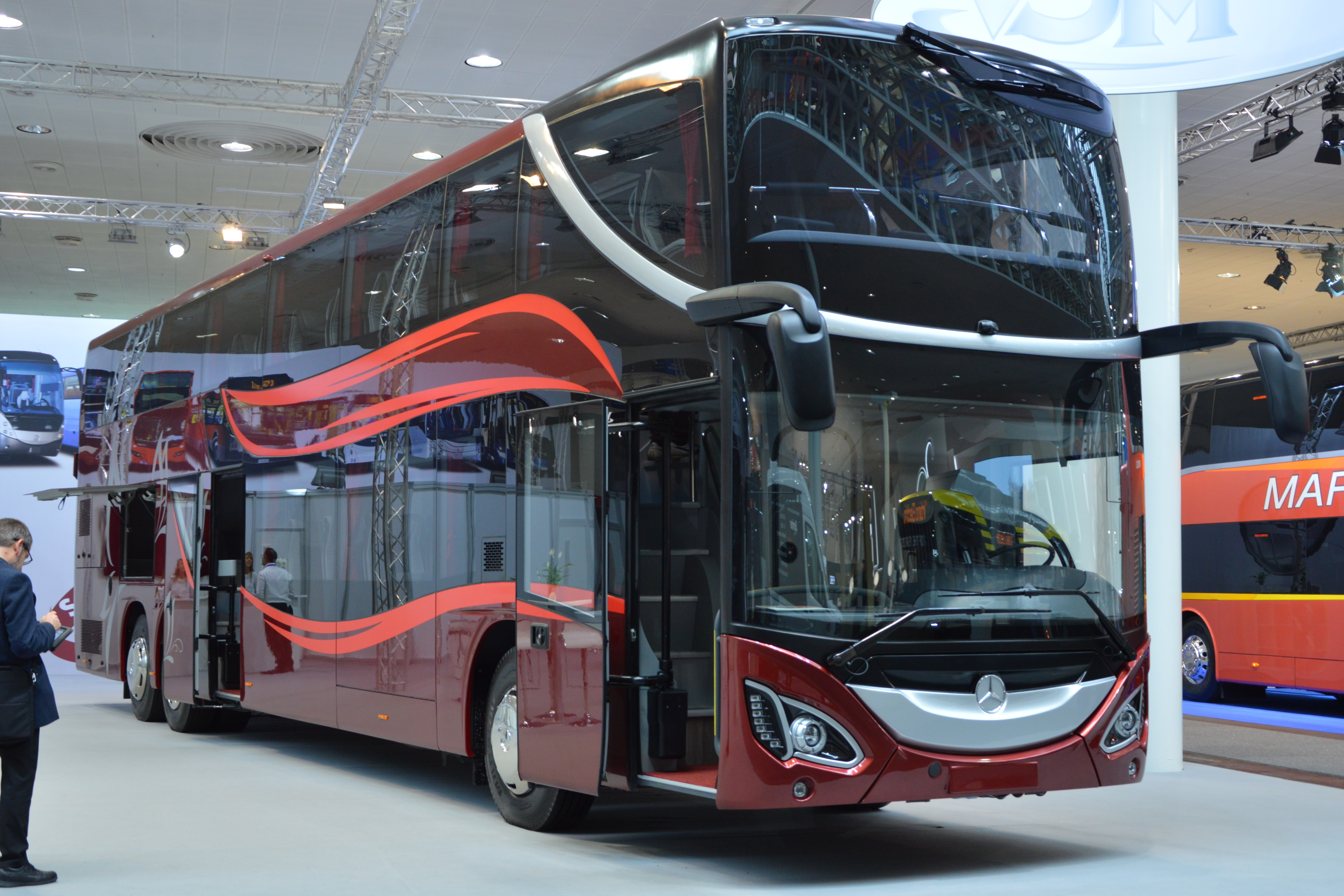 MCV 800 double-decker coach with 3 axles. Build in Egypt. With chassis Mercedes OC 500 RF 2542. With Euro3-engine for Egyptian market. For security reason no connection between driver and passenger. Photo taken at exhibition IAA 2016 in Hanover, Germany.